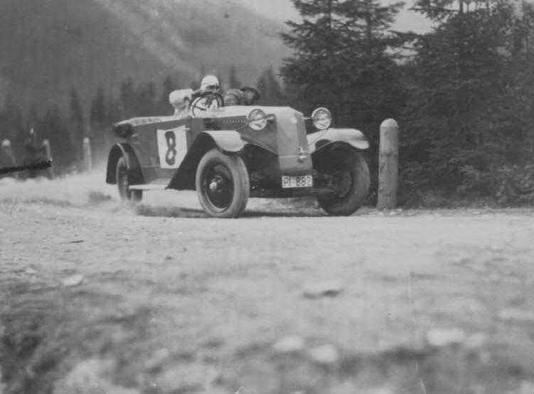 1st International Tatra Rally, Poland, August 1928.